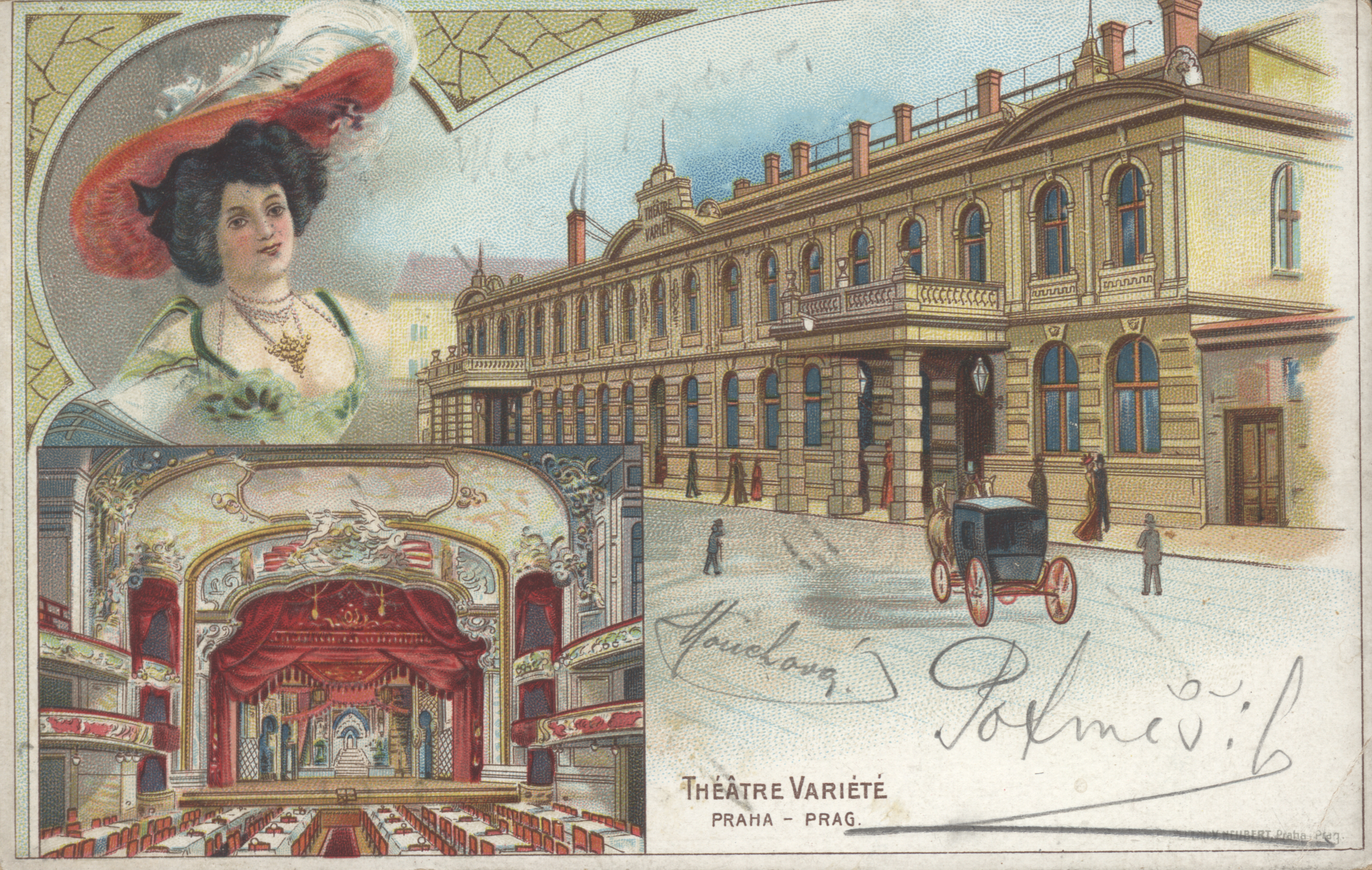 Musical Theatre Karlín